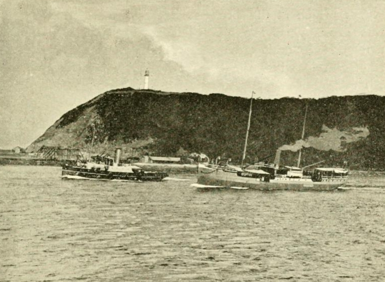 The Bluff and the Old Bluff Lighthouse at the Bay of Natal, 1895.